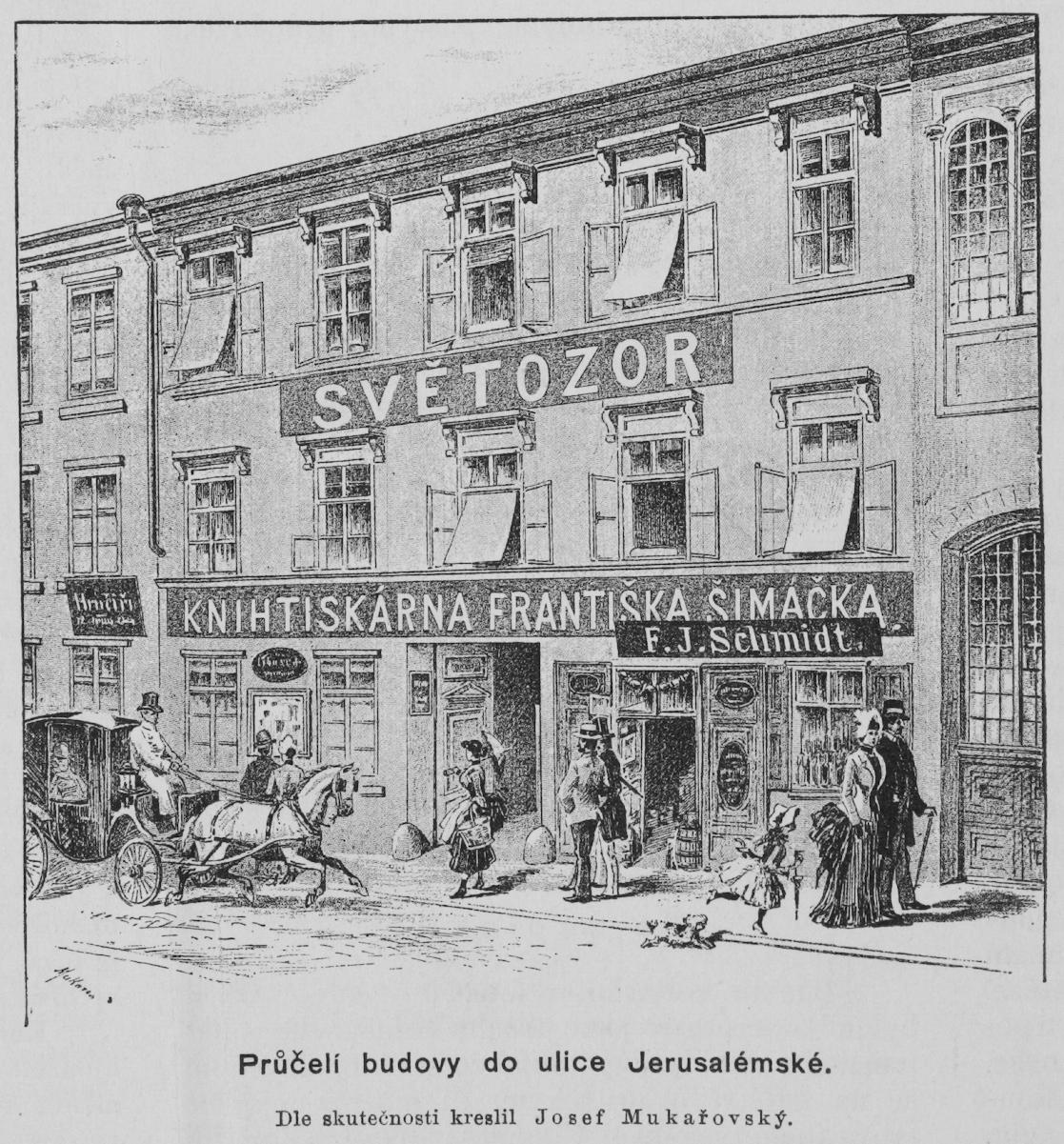 Building of the printing & publishing house of František Šimáček (1834 - 1885) with the offices of Světozor magazine in Jeruzalemská Street, Prague. Published as a part of celebrations of the 1000th issue of the named magazine.